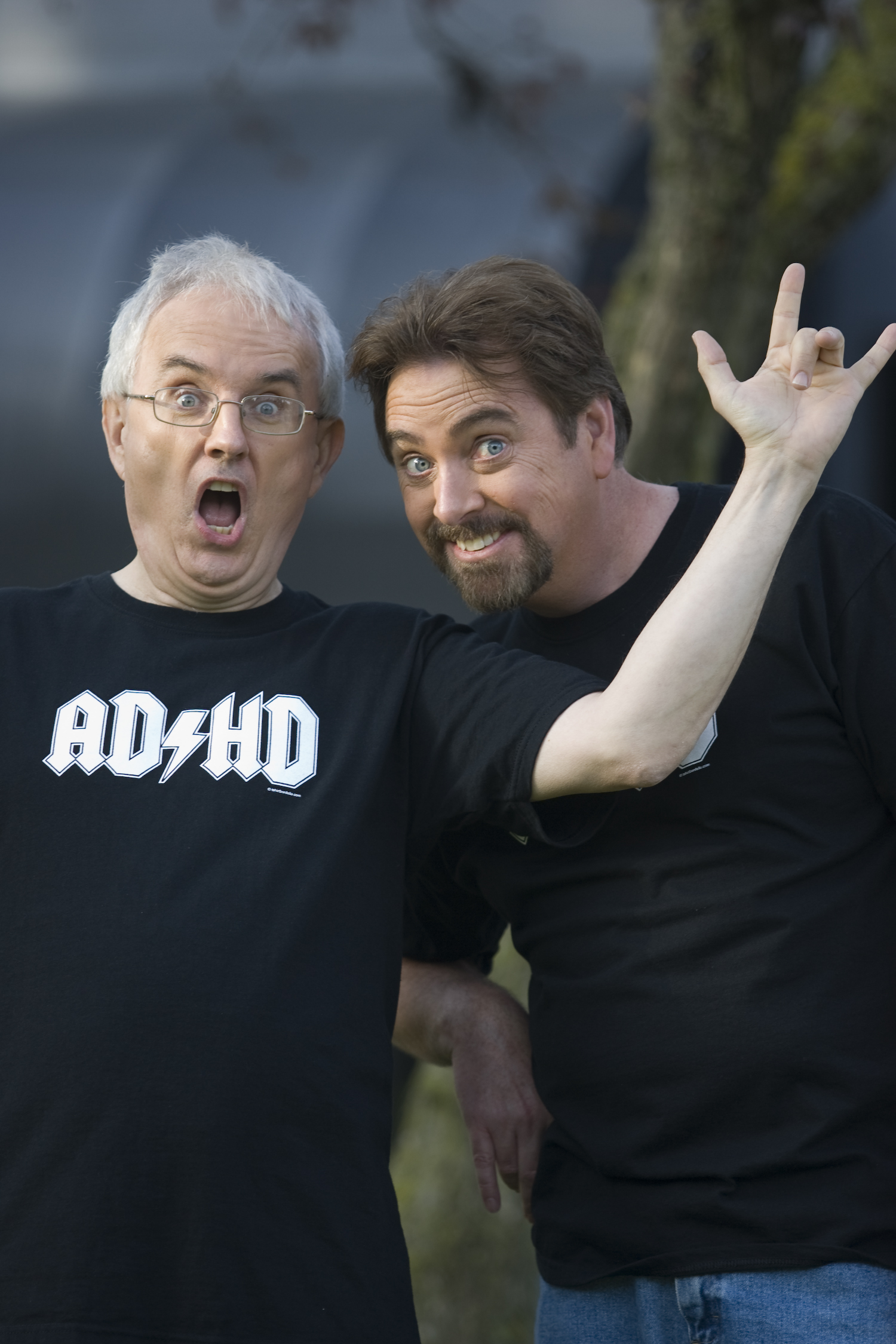 Rick Green with Patrick McKenna in 2009